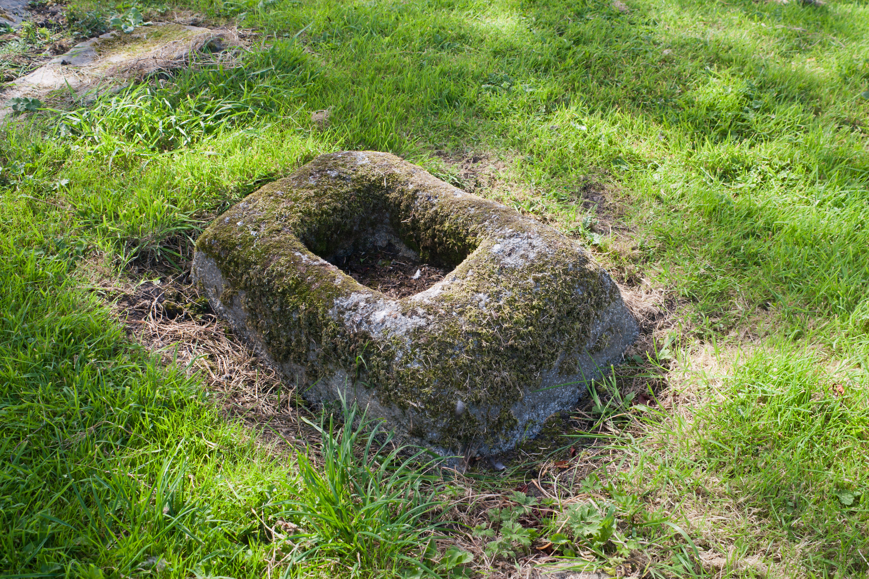 Bullaun stone on the monastic site of Moone, possibly used as a baptismal font.